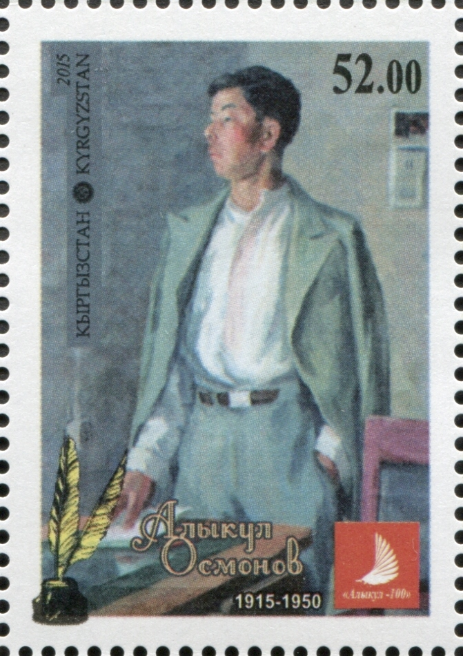 Cultural Figures of Kyrgyzstan - The 100th Anniversary of the great poet A. Osmonov